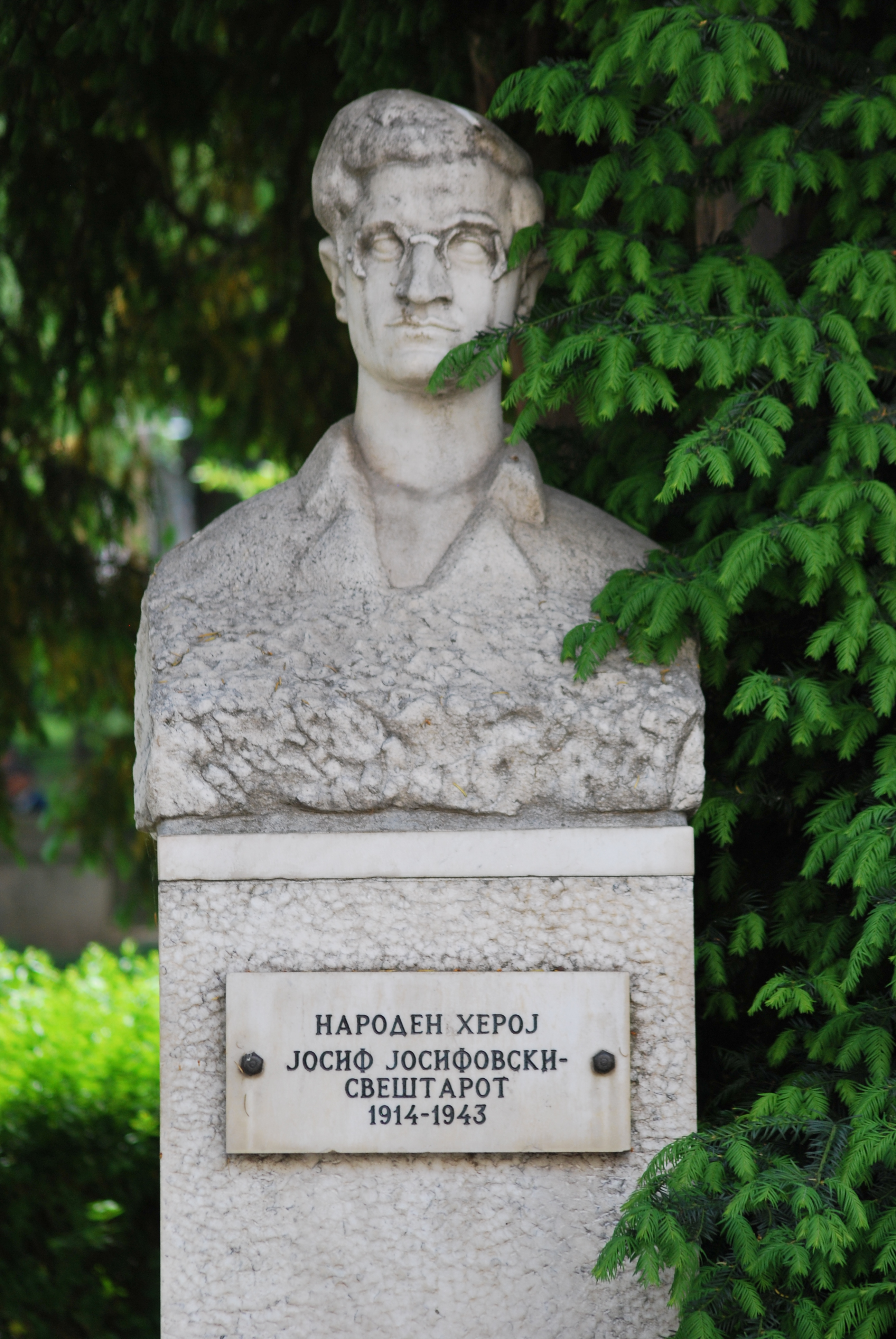 Statue of Josif Josifofski - Sveštarot in Strumica, Macedonia